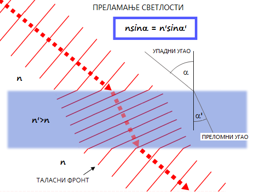 ПРЕЛАМАЊЕ СВЕТЛОСТИ